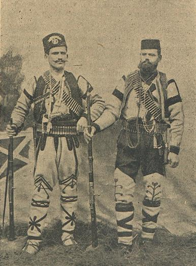 Portrait of Gligor Sokolović and his chetnik friend Mito Georgiev, while fighting for IMARO (before 1904)